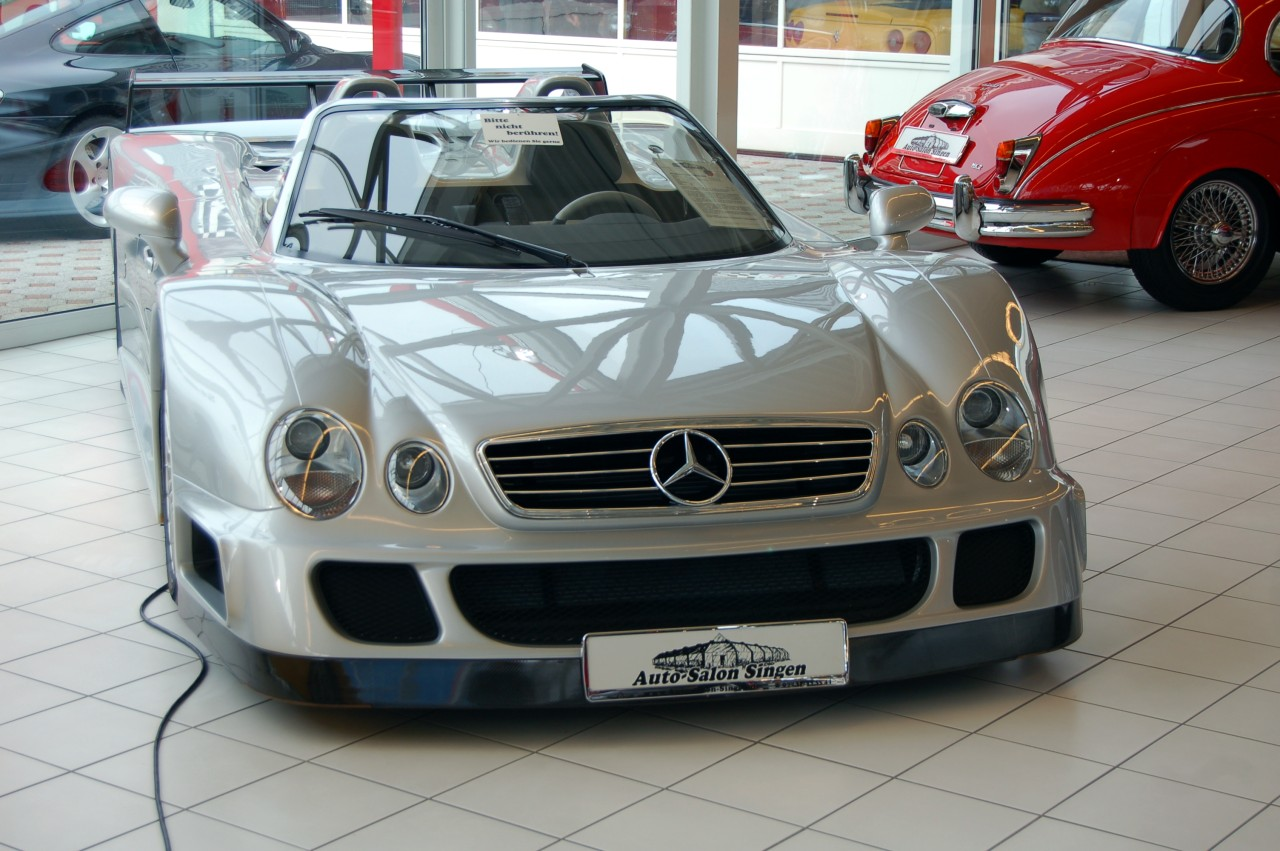 1999 Mercedes Benz CLK-GTR AMG at Auto Salon Singen, Germany. A beast.